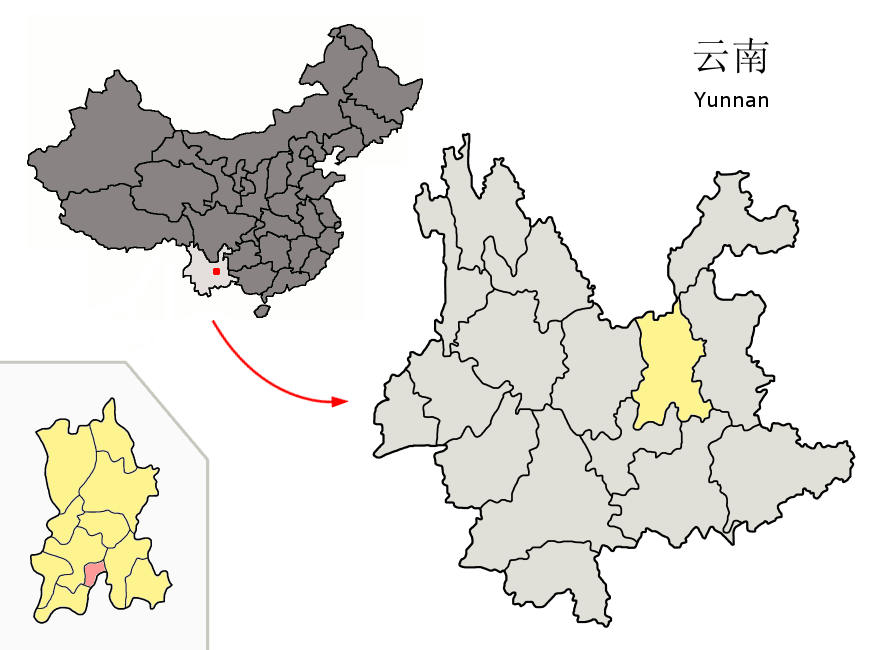 Location of Chenggong County (pink) and Kunming prefecture (yellow) within Yunnan province of China Map drawn in september 2007 using various sources, mainly : Yunnan province administrative regions GIS data: 1:1M, County level, 1990 Yunnan Counties map from